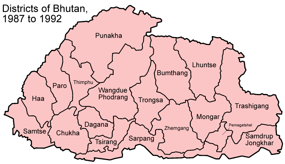 Map of the districts of Bhutan as they were between 1987 and 1992. In 1987, Gasa was split into Punakha and Thimphu, and Chukha was created from parts of Samtse, Paro and Thimphu. In 1992, Gasa was recreated by splitting a large part off Punakha, and Trashiyangtse was split off of Trashigang, creating the map we have today. Made by User:Golbez. As always with my historial maps, please let me know if any bit of this is incorrect. This is not to be considered an authoritative work, just a general guideline.